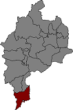 Location of Bassella in Alt Urgell